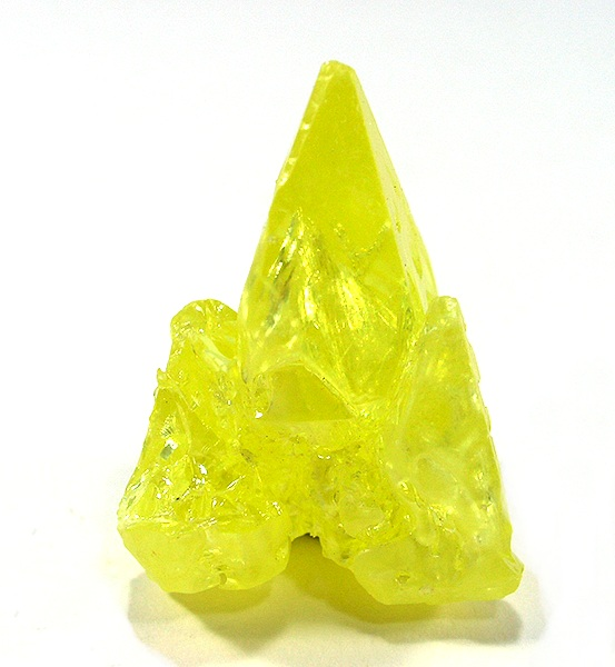 Sulphur Locality: Napa, Potosi Department, Bolivia Size: thumbnail, 2.8 x 2.2 x 1.9 cm Sulfur Superb, sharp, colorful crystal...this is of unusual size for the locality, and is razor sharp! 2.8 x 2.2 x 1.9 cm